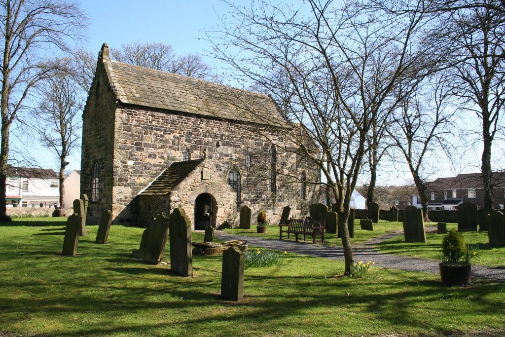 Taken by Matthew Beddow